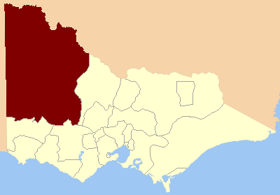 Electoral district of Wimmera, Victorian Legislative Assembly